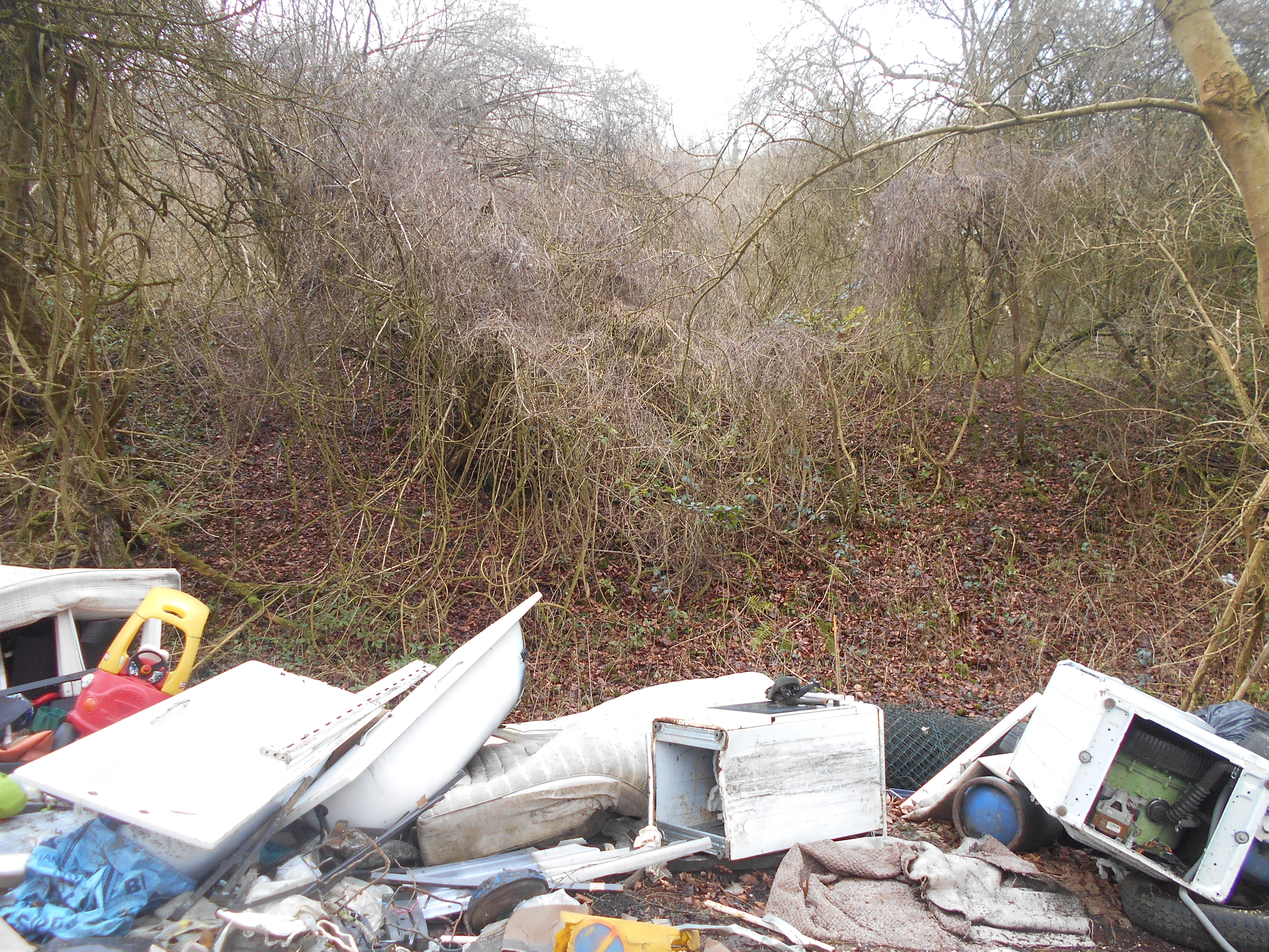 Fly tipping along The Avenue, Tatsfield, beside the North Downs Way. Surrey, England.